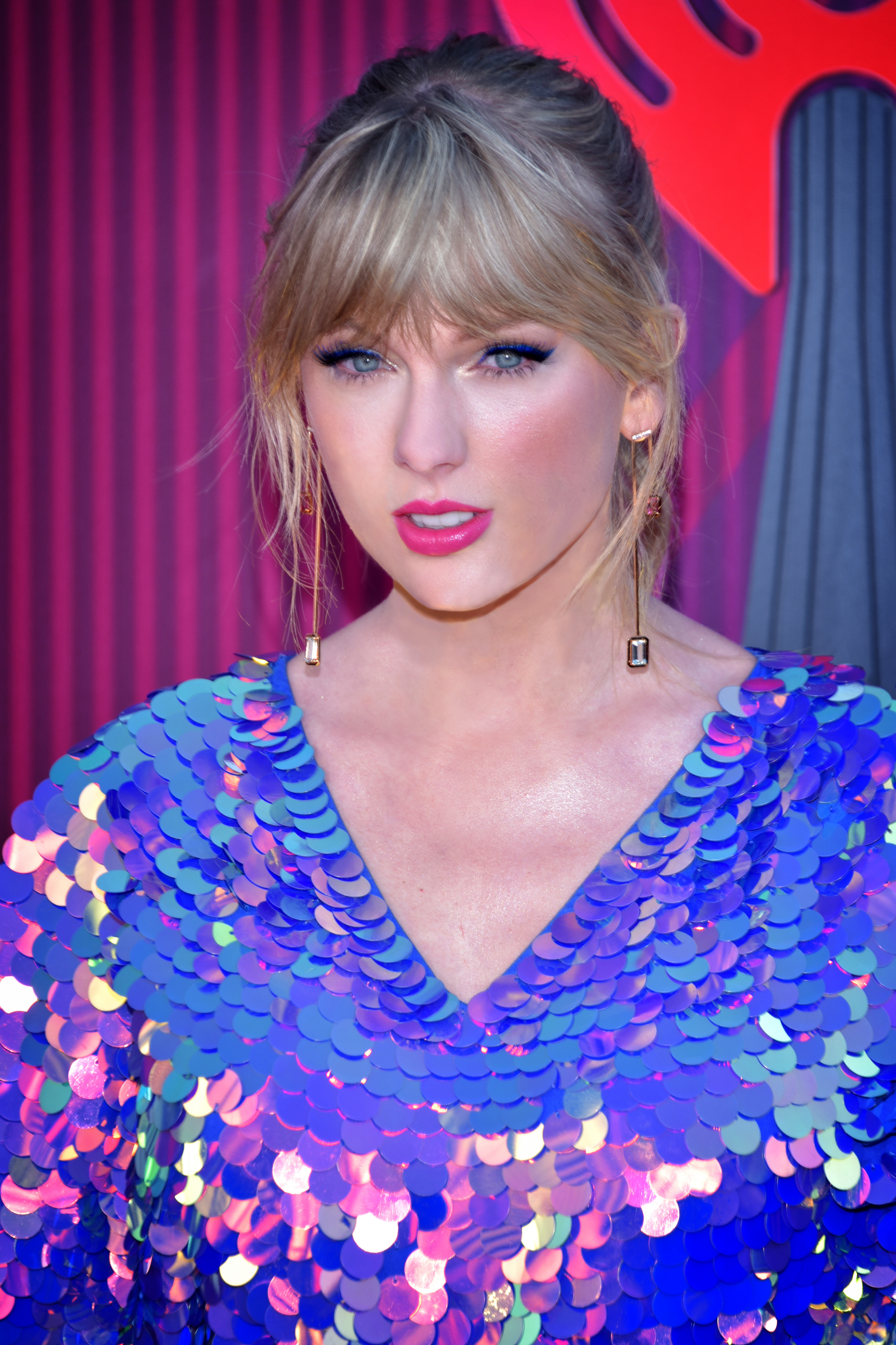 Taylor Swift at the iHeartRadio Music Awards 2019 - Photo by Glenn Francis of